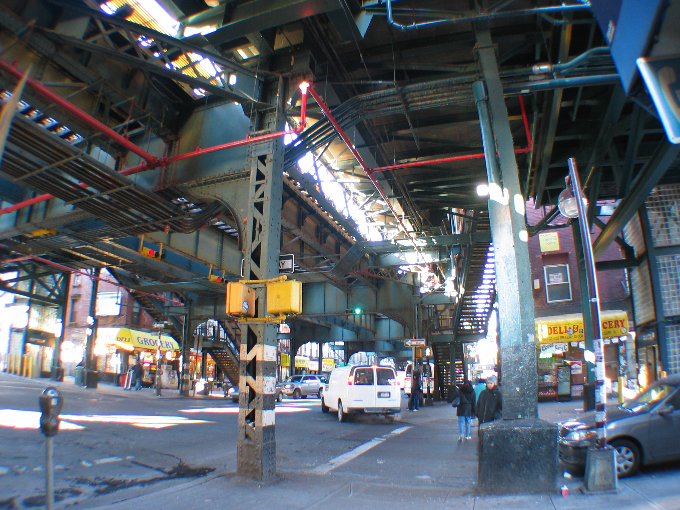 Below elevated Marcy Avenue station in Brooklyn, New York